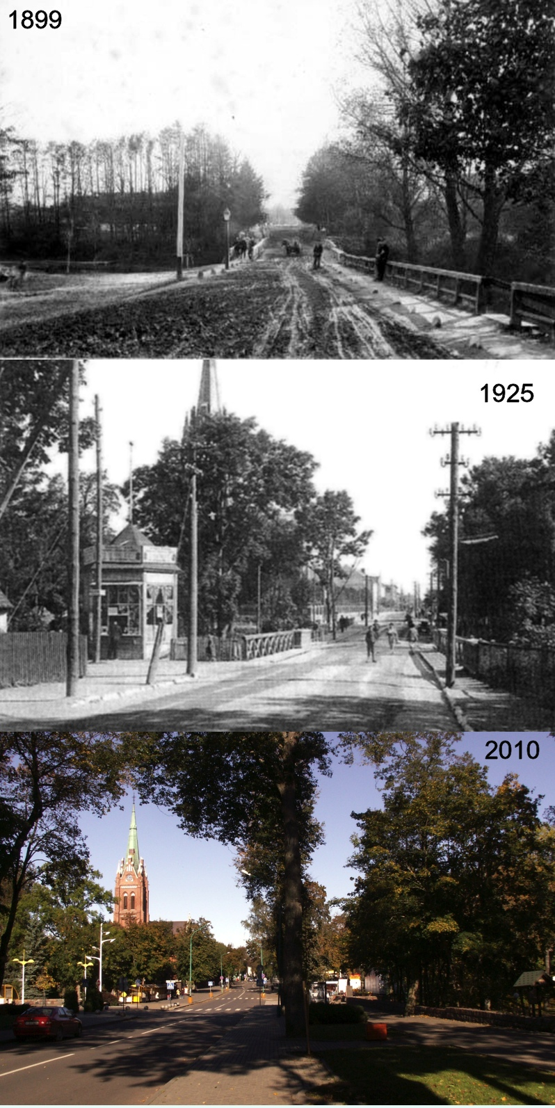 Palanga Liepajas-Vytauto str. in 1899 - 1925 - 2010, LithuaniaLietuvių: Palangos Liepojos-Vytauto g. 1899 - 1925 - 2010 m., Lietuva